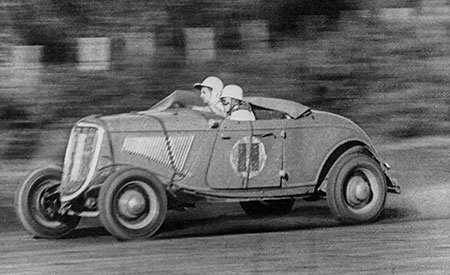 1934 Ford V8 Roadster of Mick Smith. The combination is shown on the way to victory in the Victorian Centenary Grand Prix of 1934 at the Phillip Island circuit